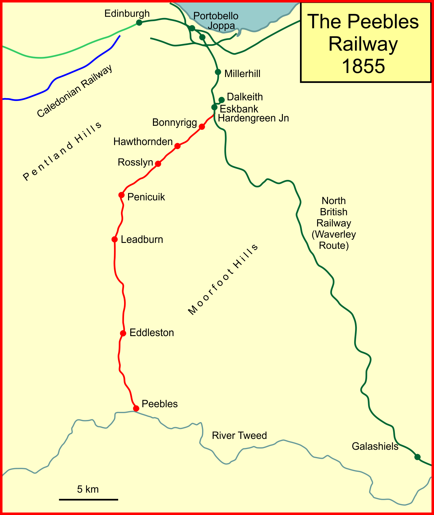 System map of the Peebles Railway, Scotland, in 1855